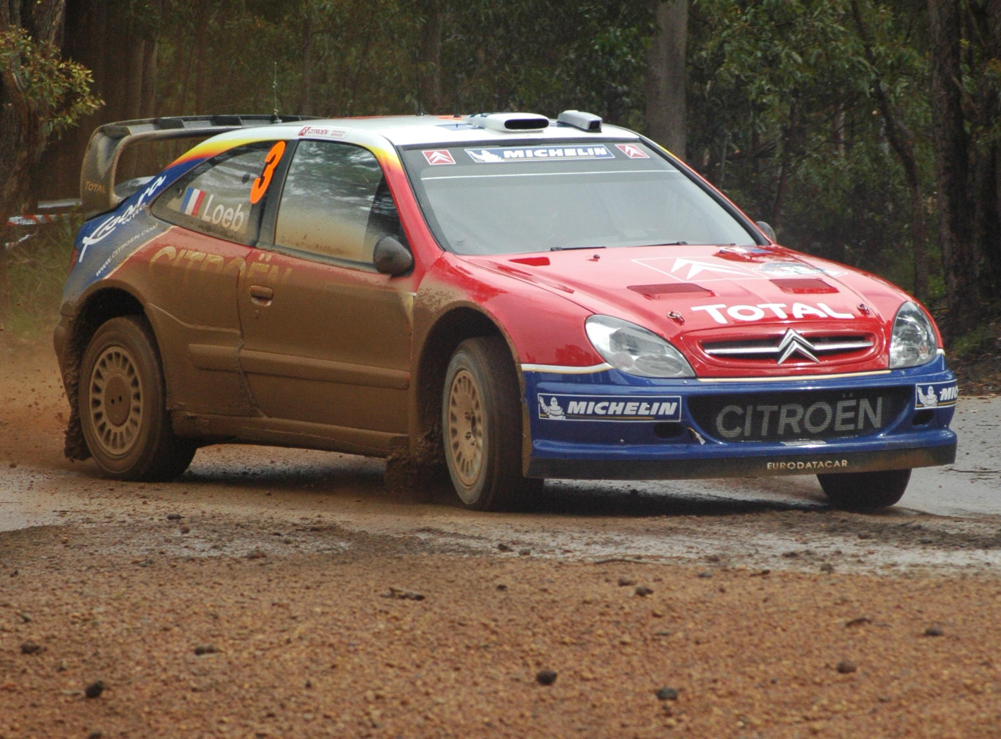 Photo taken by 306maxi on 11/11/2004 in Australia